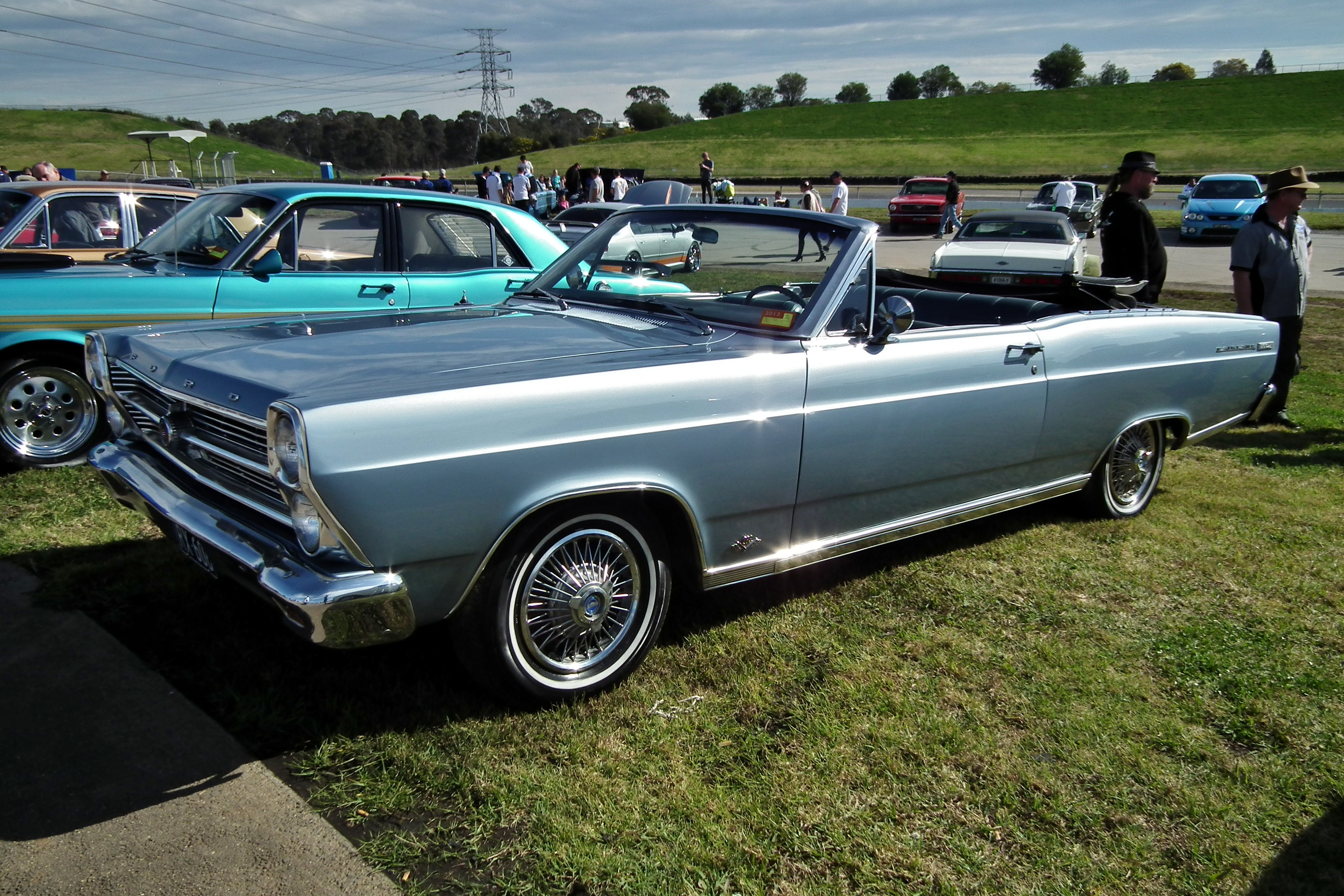 1966 Ford Fairlane 500 XL convertible. Taken at the 2011 New South Wales All Ford Day, held at Eastern Creek Raceway.